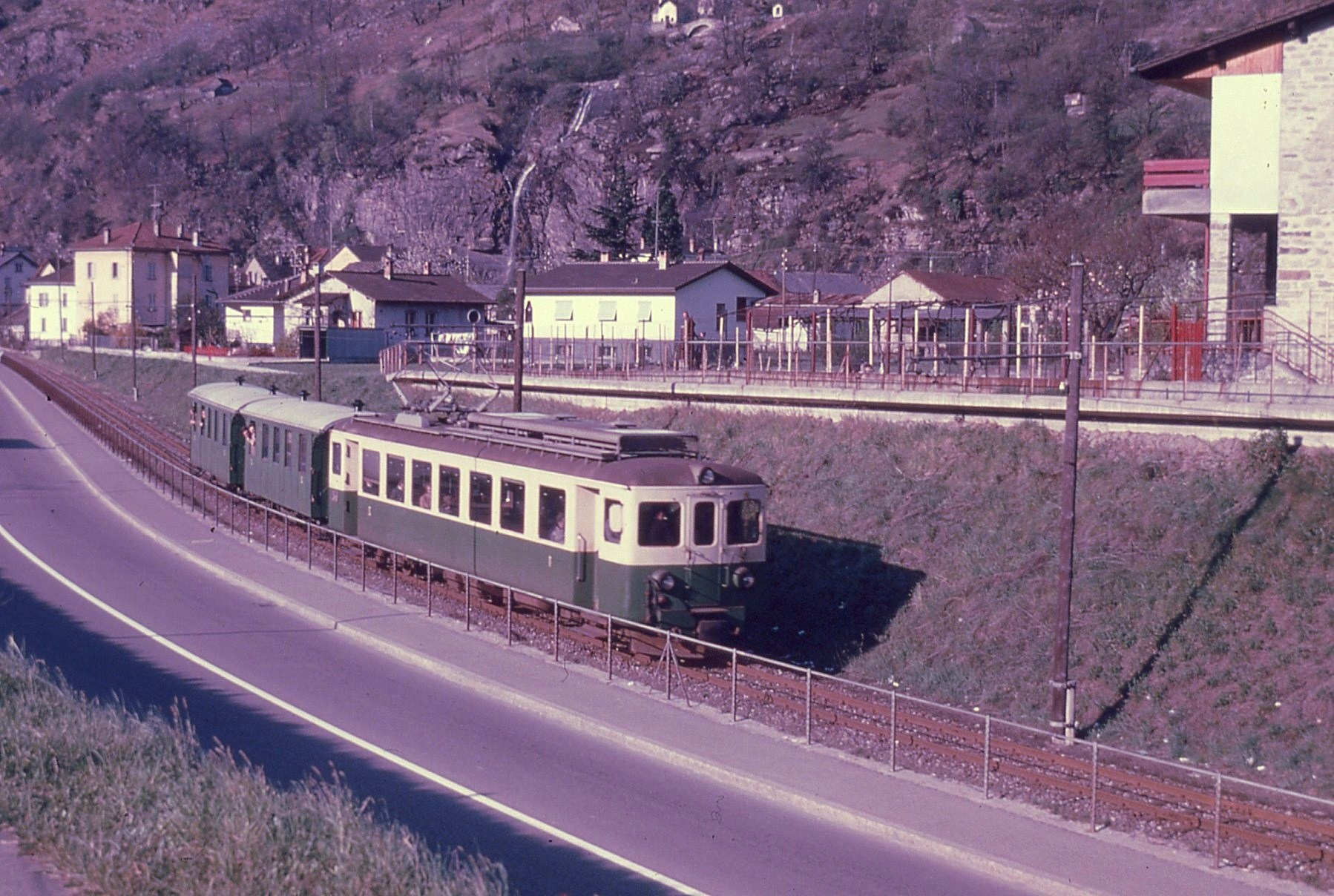 Train between Biasca and Acquarossa, Canton of Ticino, Switzerland